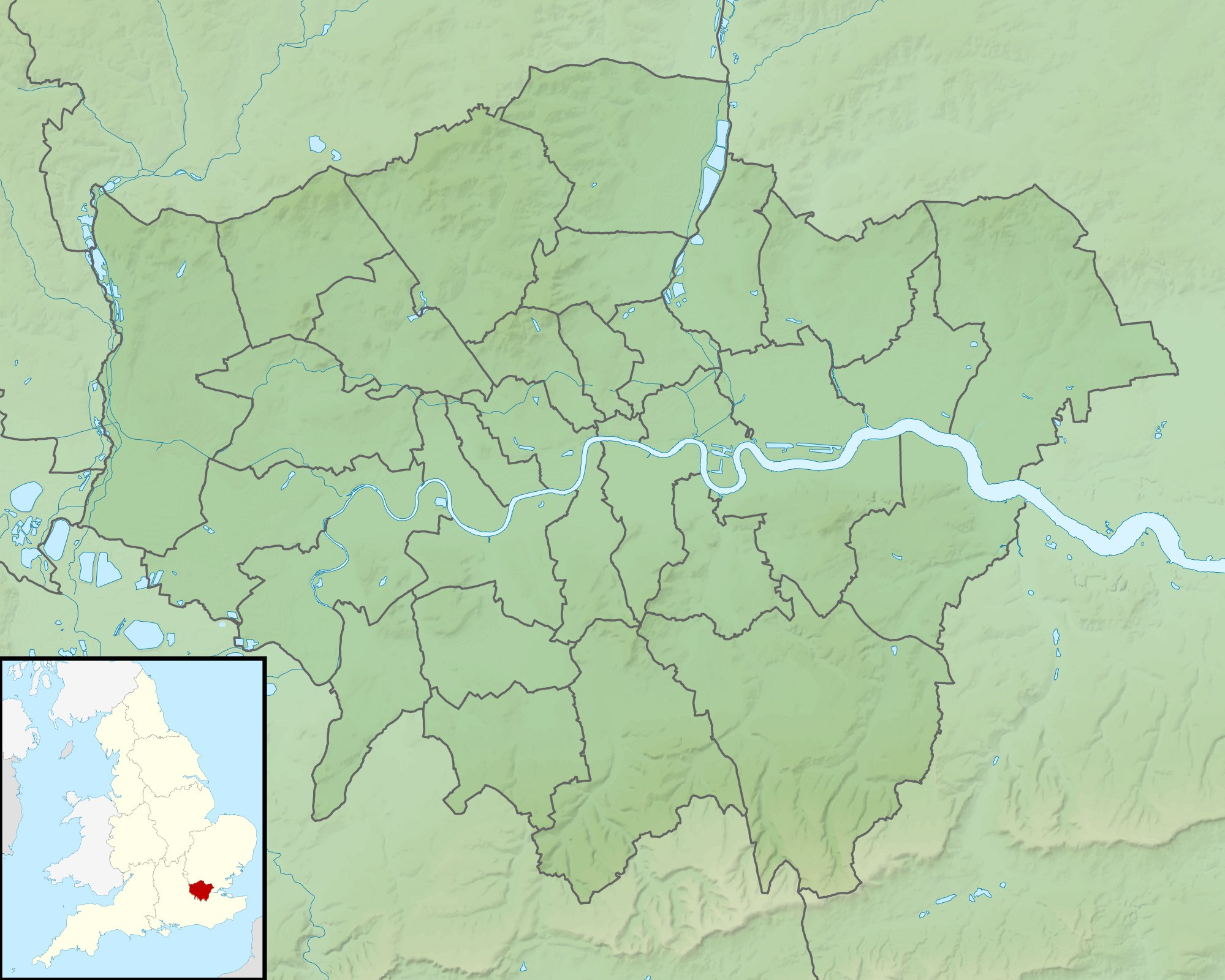 Relief map of Greater London, UK. Equirectangular map projection on WGS 84 datum, with N/S stretched 160% Geographic limits: West: 0.57W East: 0.37E North: 51.72N South: 51.25N